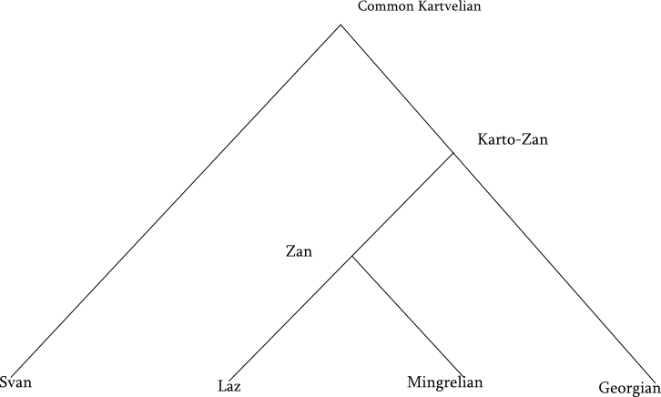 Family tree of the Kartvelian languages